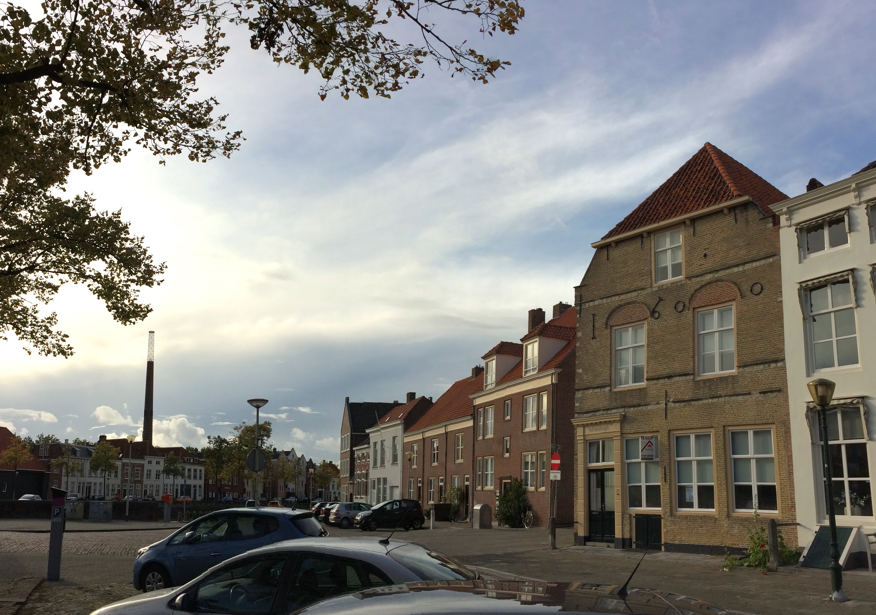 Westelijk deel van de Kaai met schoorsteen van de voormalige Nedalco, Bergen op Zoom.